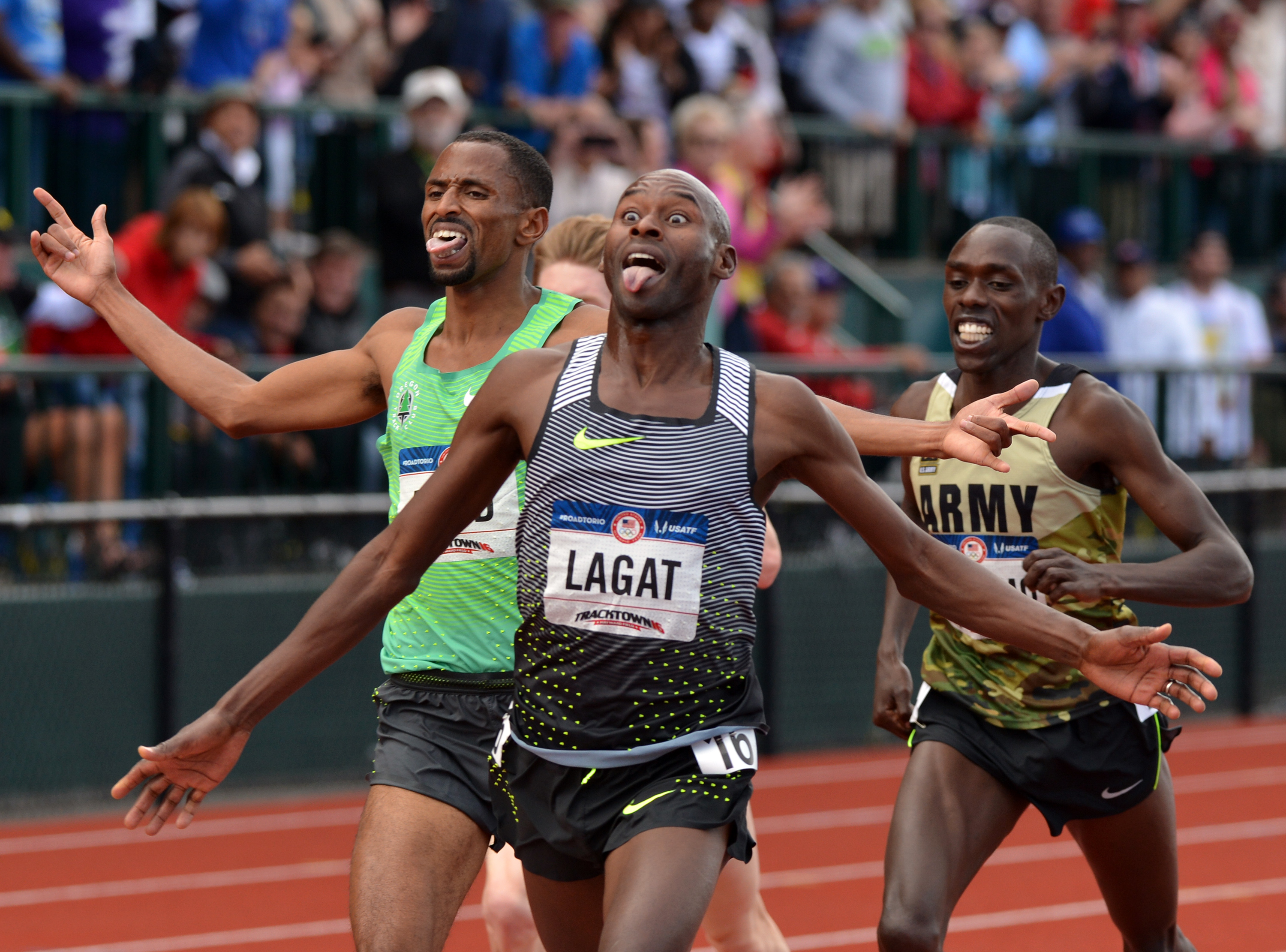 Bernard Lagat (center) holds off runner-up Hassan Mead (left) and third-place finisher Spc. Paul Chelimo (right) of the U.S. Army World Class Athlete Program to win the men's 5,000-meter final July 9 at the 2016 U.S. Olympic Track & Field Team Trials at Hayward Field in Eugene, Oregon. Lagat won the race with a time of 13 minutes, 35.50 seconds, followed by Mead (13:35.70) and Chelimo (13:35.92). They are Team USA's trio for the 5K in Rio de Janeiro. U.S. Army photos by TIm Hipps, IMCOM Public Affairs #RoadToRio #WCAP #ArmyTeam #TeamUSA #SoldierOlympians #ArmyOlympians #ArmyStrong #GoArmy